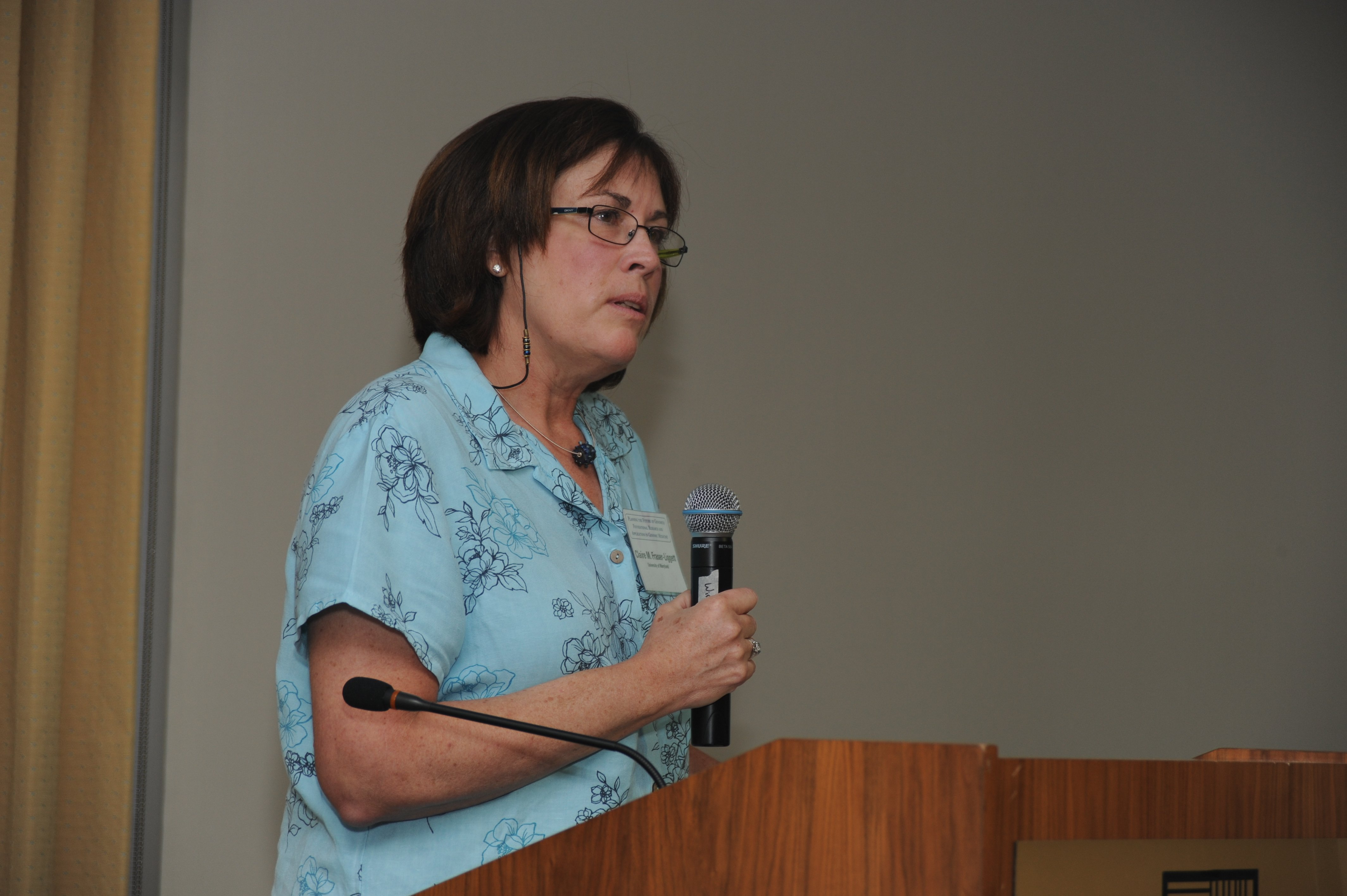 American microbiologist Claire M. Fraser-Liggett at an event on "Planning the Future of Genomics" in the Airlie Conference Center of Warrenton, VA.